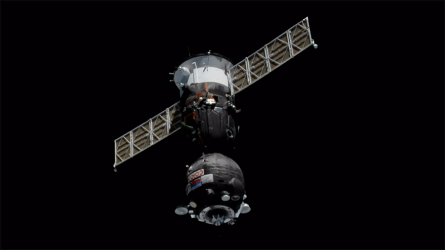 The Soyuz MS-16 crew ship carrying the Exp 63 crew approaches its docking port on the International Space Station. The Soyuz spacecraft carrying NASA astronaut Chris Cassidy and Russian cosmonauts Anatoly Ivanishin and Ivan Vagner docked to the International Space Station at 10:13 a.m. EDT while both spacecraft were flying about 260 miles above the Atlantic Ocean. Aboard the space station, NASA Flight Engineers Andrew Morgan and Jessica Meir and Expedition 62 Commander Oleg Skripochka of Roscosmos will welcome the new crew members when the hatches between the two spacecraft are opened following standard pressurization and leak checks.